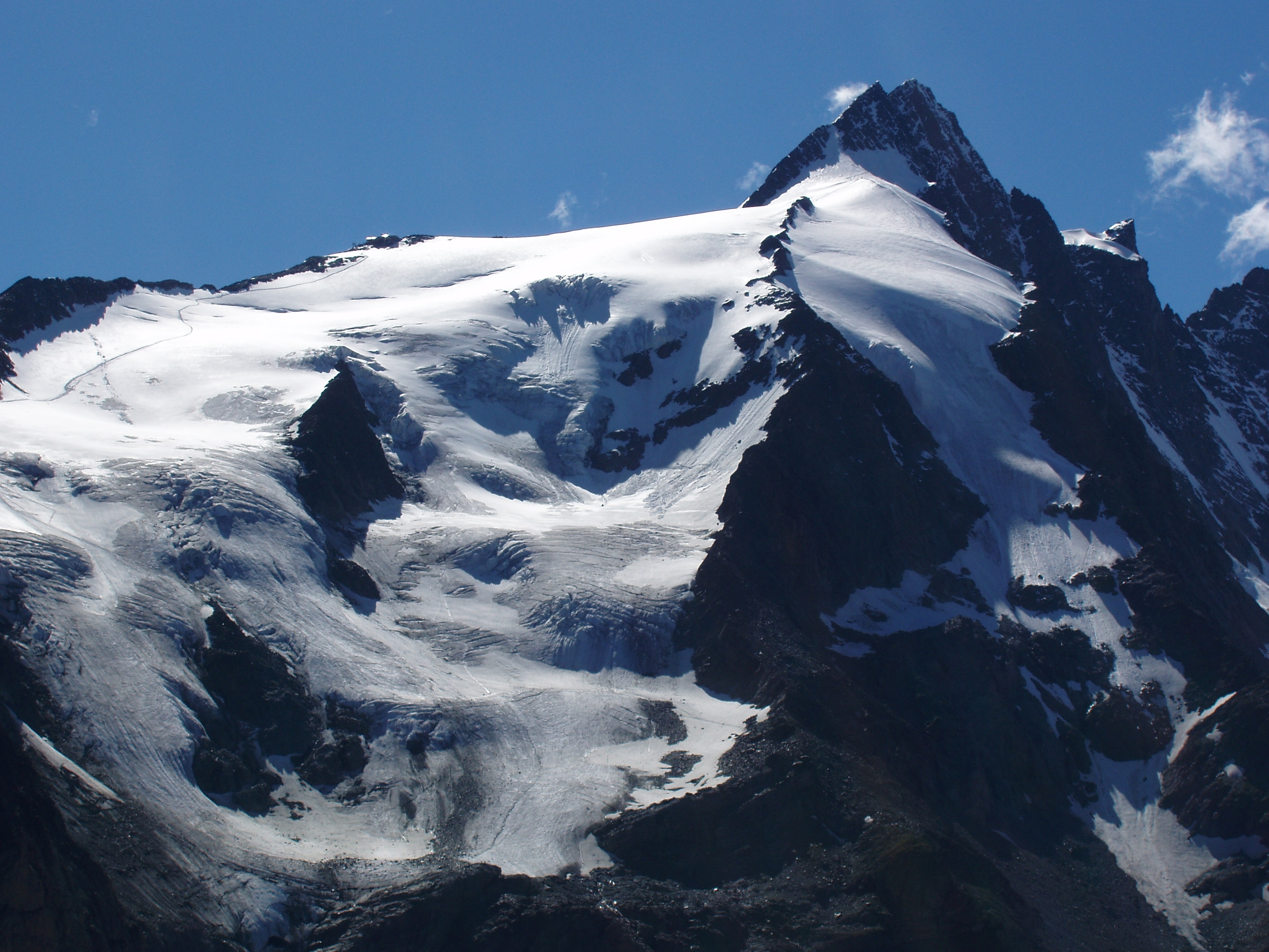 Großglockner in Summer 2005, view from Kaiser-Franz-Josefs-Höhe